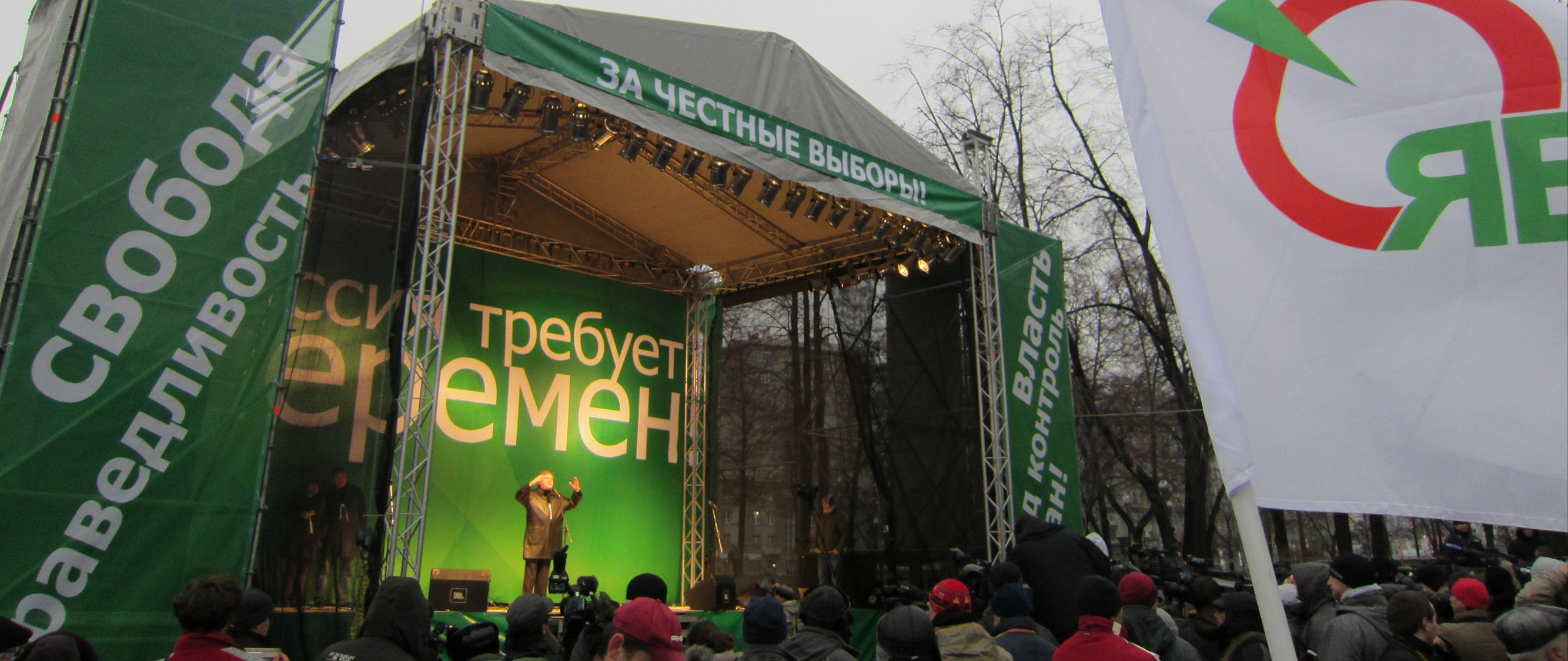 Yavlinsky speech at 'Yabloko' party meeting, Moscow, 2011-12-17